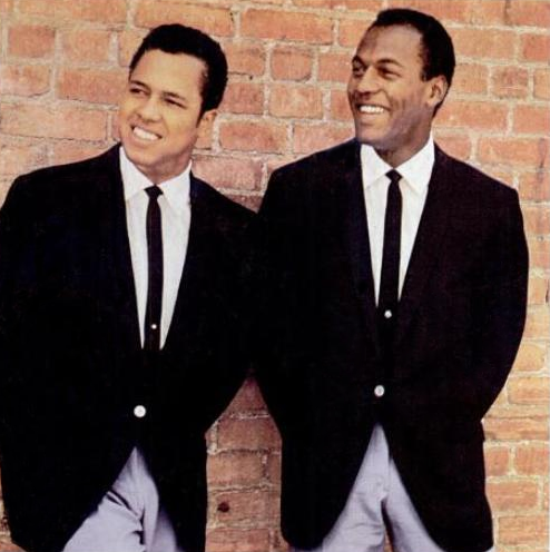 Trade ad for Joe and Eddie's album Joe and Eddie Live in Hollywood. To better adapt it to his respective Wikipedia article, the ad was cropped and cleaned in a graphics editing program. The original can be viewed at the source below.